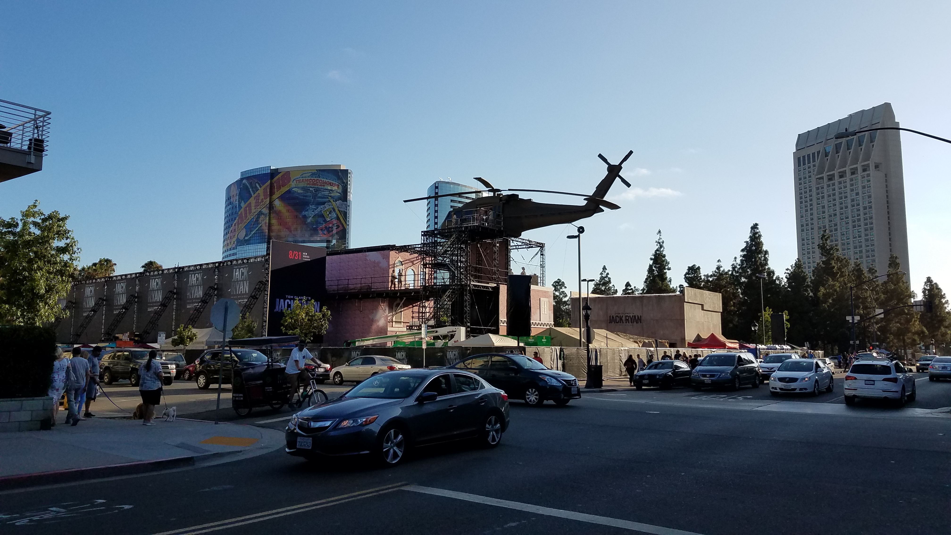 Jack Ryan Experience, off of Front Street, across from Comic-Con International 2018